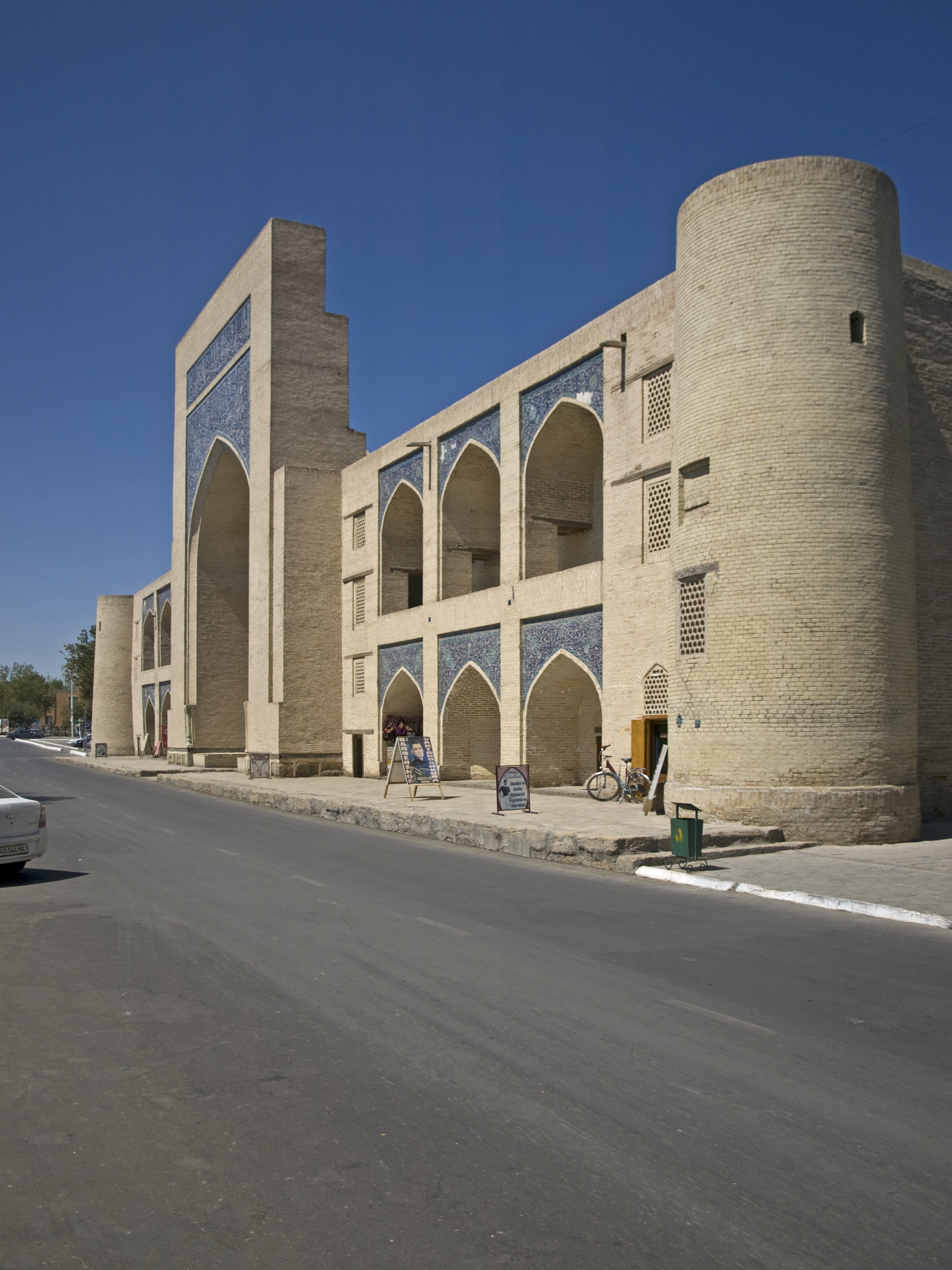 Kukeldash Madrasa, Bukhara